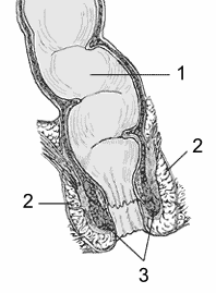 Diagram of the rectum and anus.